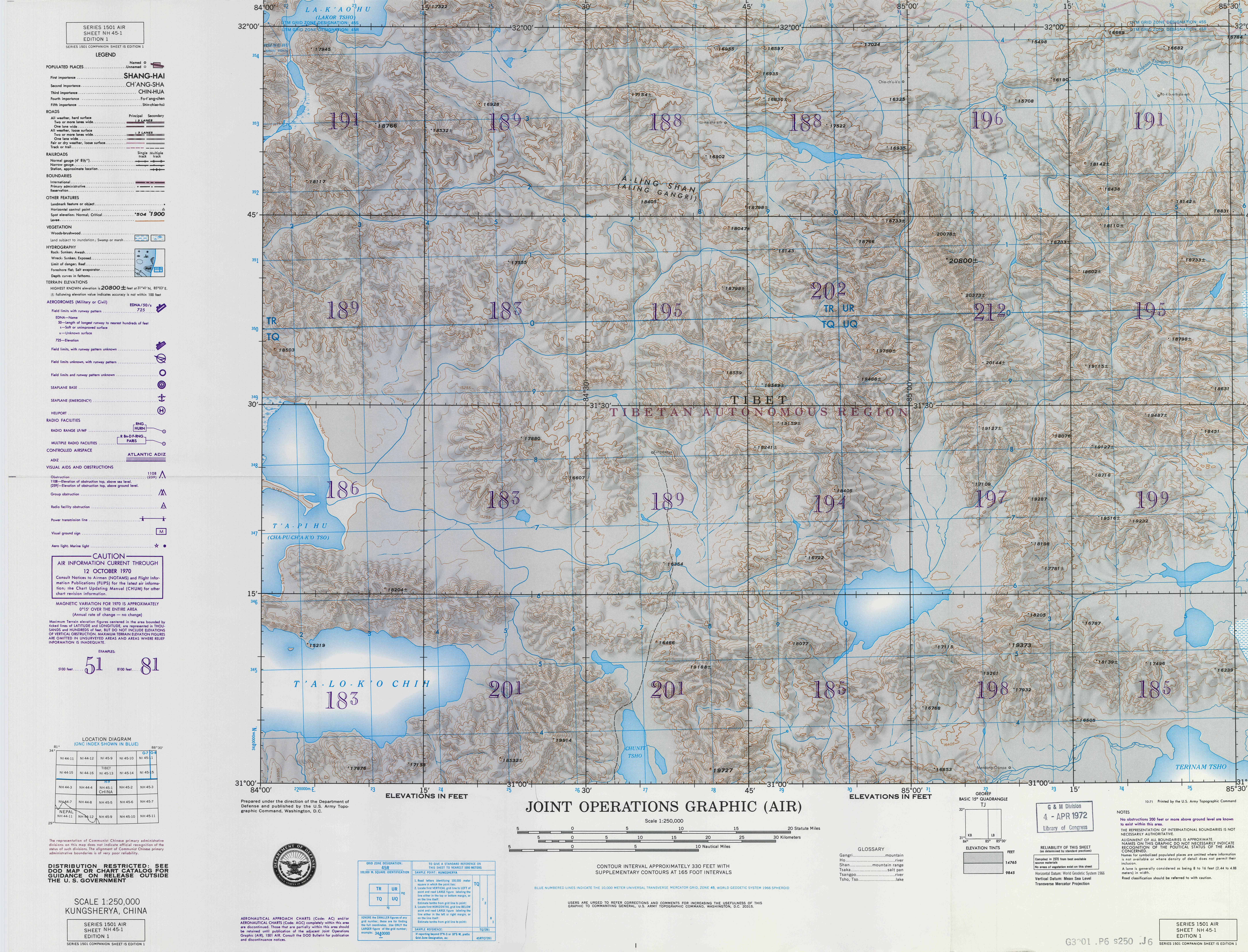 NH-45-1 Kungsherya, China